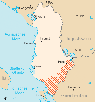 Occupying areas of Greeks in Albania.